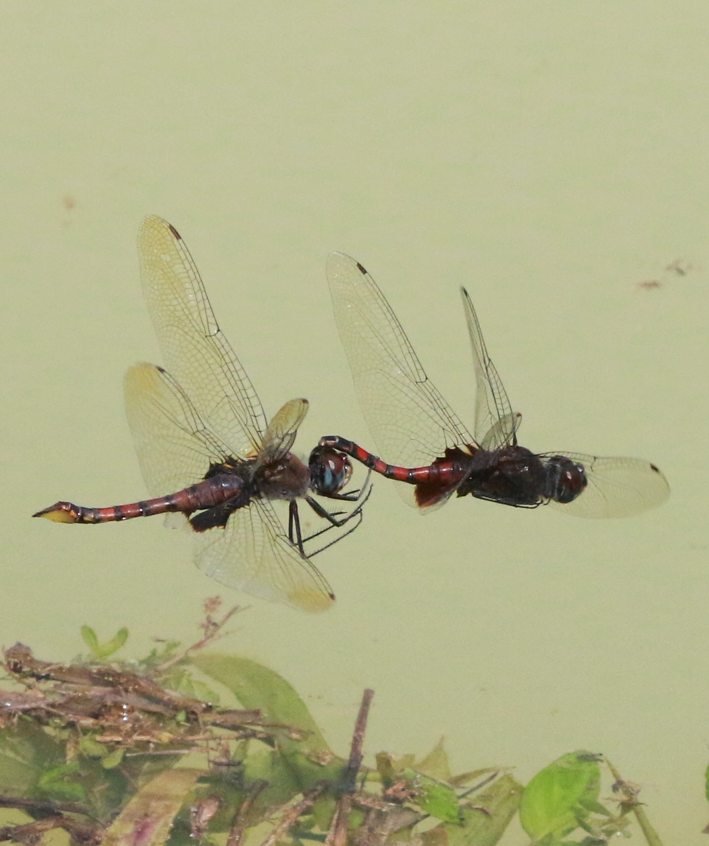 Black Marsh Trotter,Tramea limbata